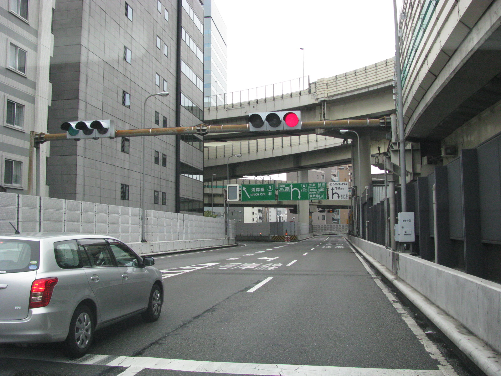 Hakozaki junction in Metropolitan expressway.(Tokyo,Japan) This is the lower portion of the Hakozaki junction.